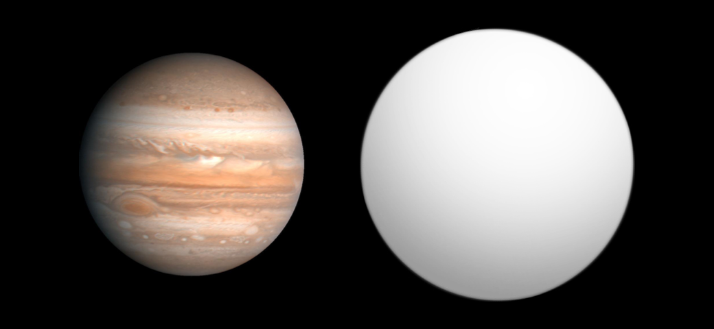 Comparison of best-fit size of the exoplanet HAT-P-1 b with the Solar System planet Jupiter, as reported in the Extrasolar Planets Encyclopaedia[1] as of 2010-10-03. ↑ Extrasolar Planets Encyclopaedia (2010-09-30). Retrieved on 2010-10-03.